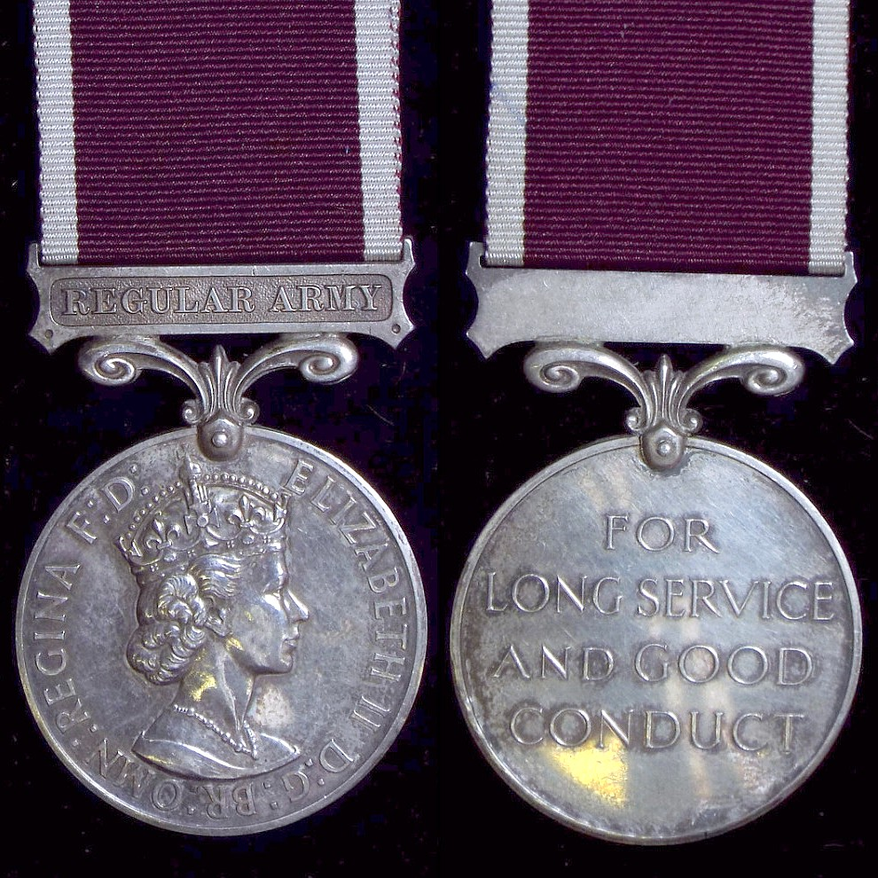 The first Queen Elizabeth II version of the Medal for Long Service and Good Conduct (Military)